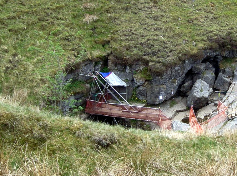 The entrance to Jib Tunnel, Gaping Gill, is between the rock wall and the large boulder. A seven metre cave passage leads to a 104 metre shaft.